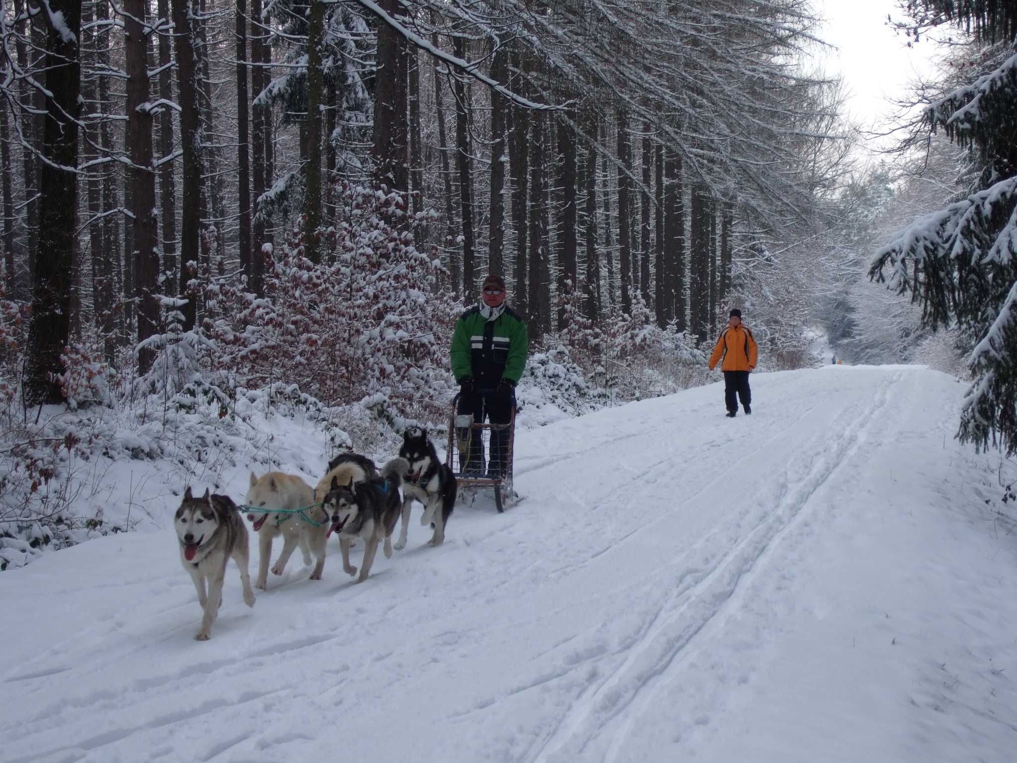 The picture shows a dogsled race in forest "Werdauer Wald".